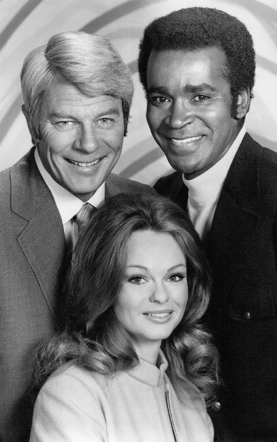 Photo of Peter Graves, Greg Morris and Lynda Day George as part of the cast of Mission:Impossible in 1972.